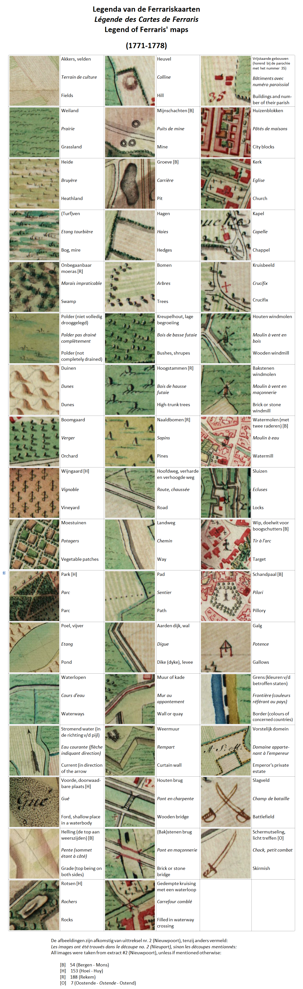 Legend of the Ferraris maps